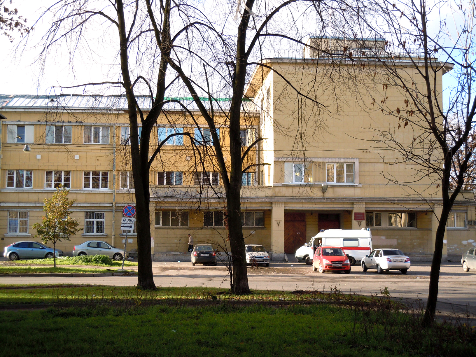 Preventorium of the Kirov district